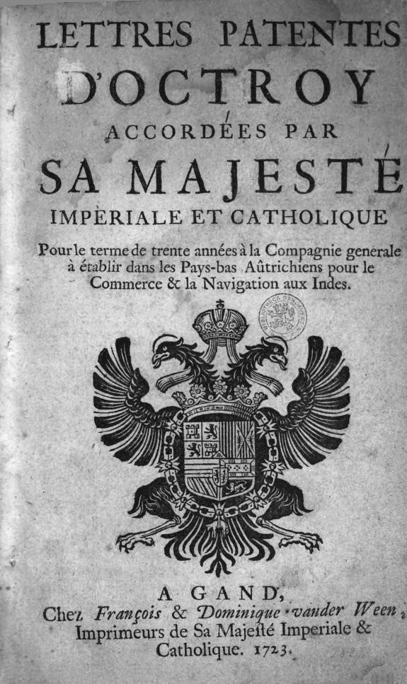 Title page of the letter patents creating the General Company Established in the Austrian Netherlands for Commerce and Navigation with the Indies, also known as the Imperial and Royal East India Company, the General Company or the Ostend Company, issued by Emperor Charles VI, 19 December 1722.